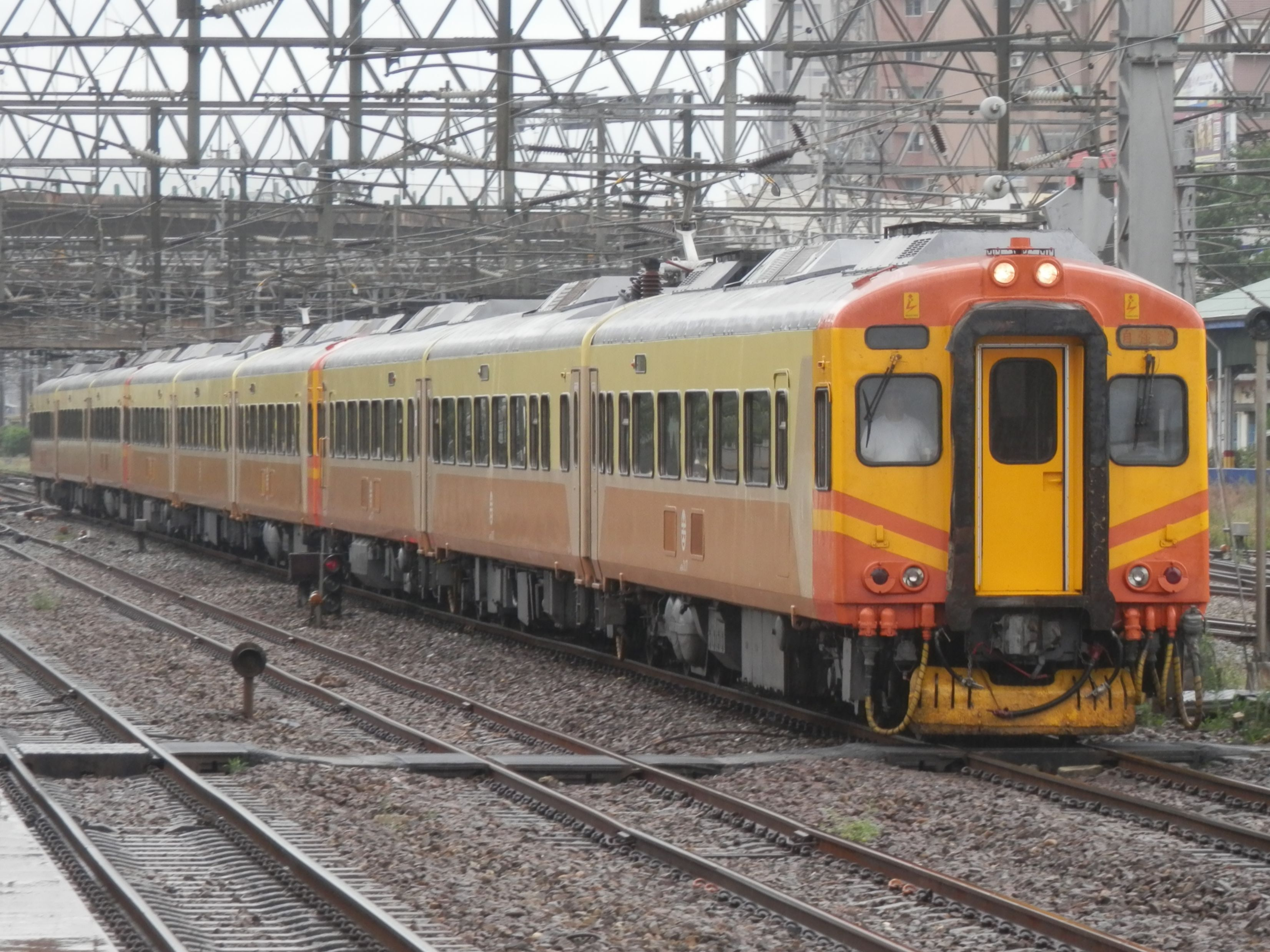 TRA Tze-Chiang Ltd-Exp Type EMU EMU300 at Trunk Line Hsinchu Station